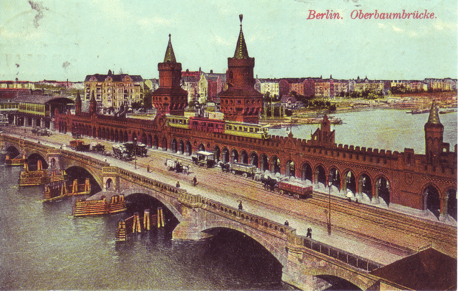 View of Oberbaumbrücke in Berlin, after 1902